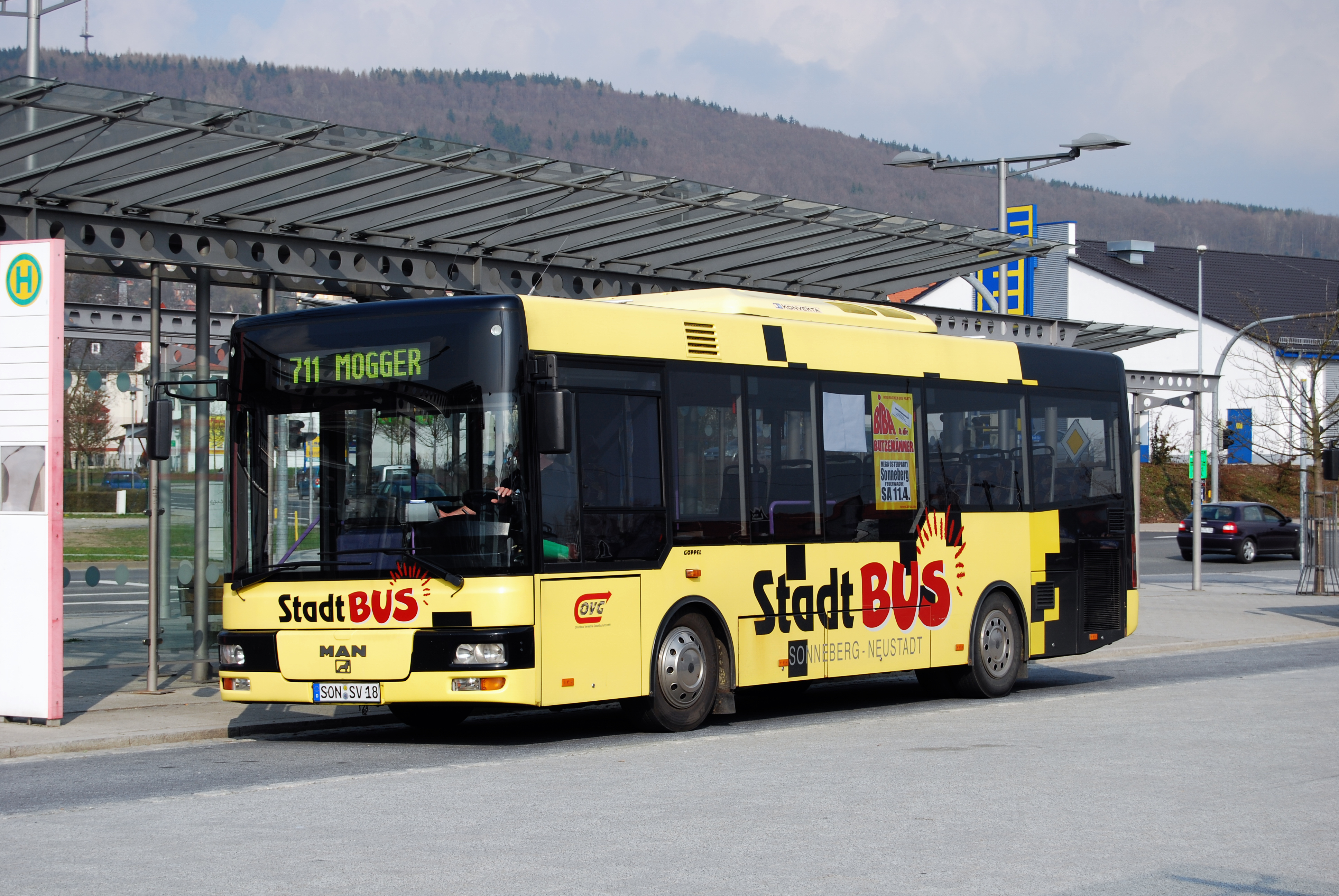 MAN-Göppel NM 223 bus (reg. SON-SV 18) (with MAN chassis) in Sonneberg, Germany. Omnibus Verkehrs Gesellschaft mbH Sonneberg/Thür (OVG) - Stadtverkehr Sonneberg-Neustadt from Sonneberg operator.